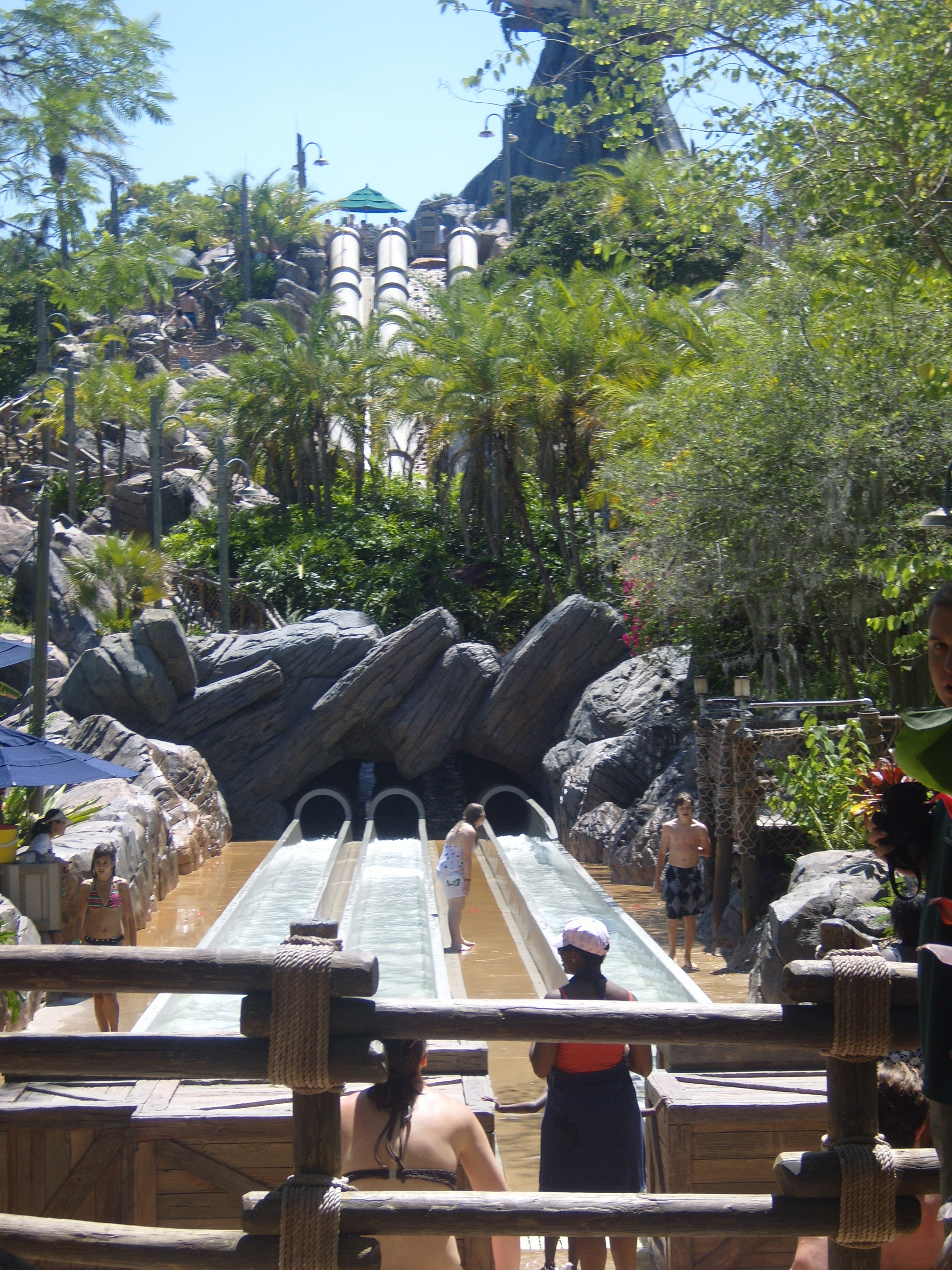 The Humunga Kowabunga slides in Typhoon Lagoon (Walt Disney World Resort Orlando)